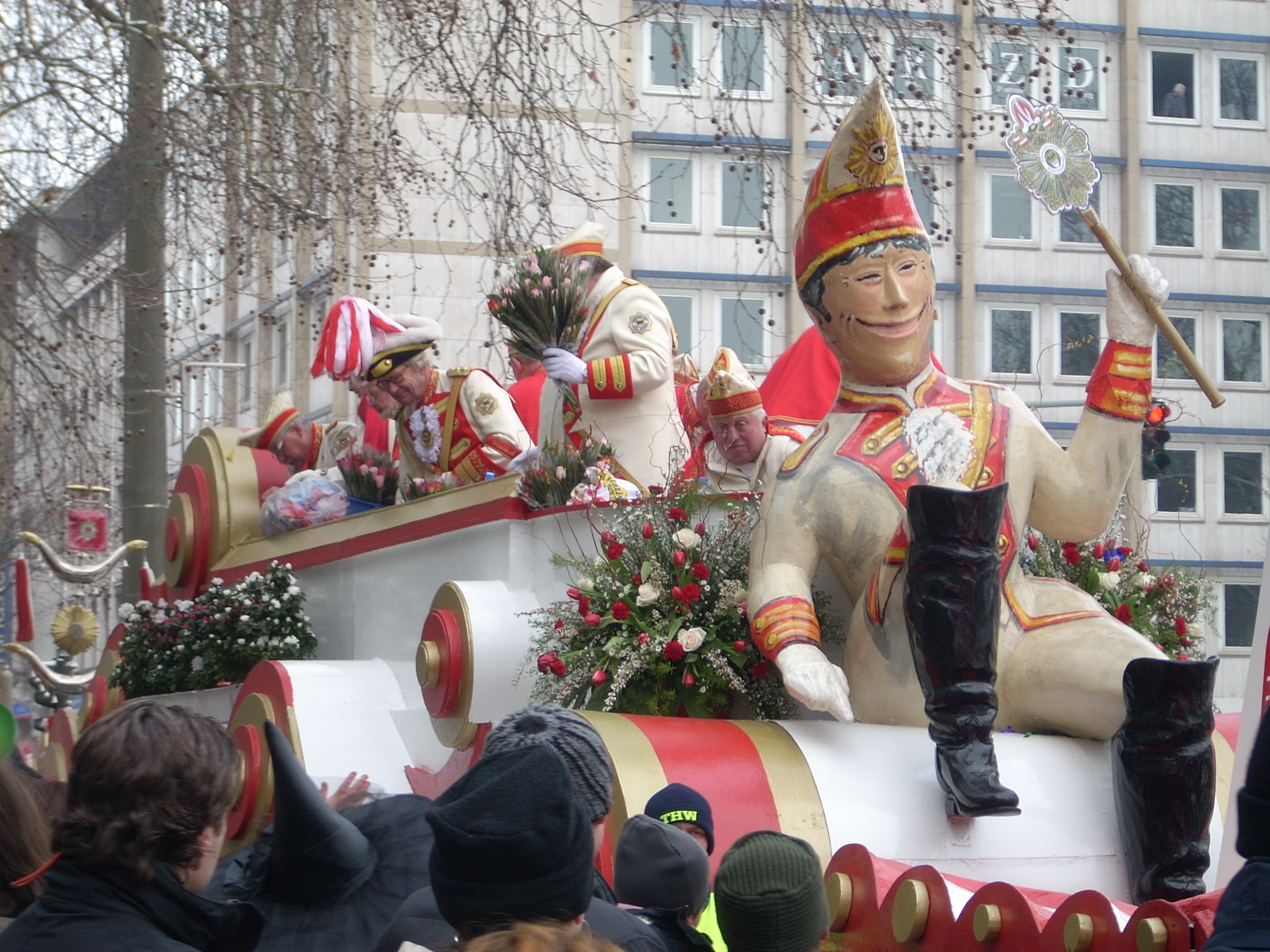 Rosenmontag parade in Duisburg, Germany